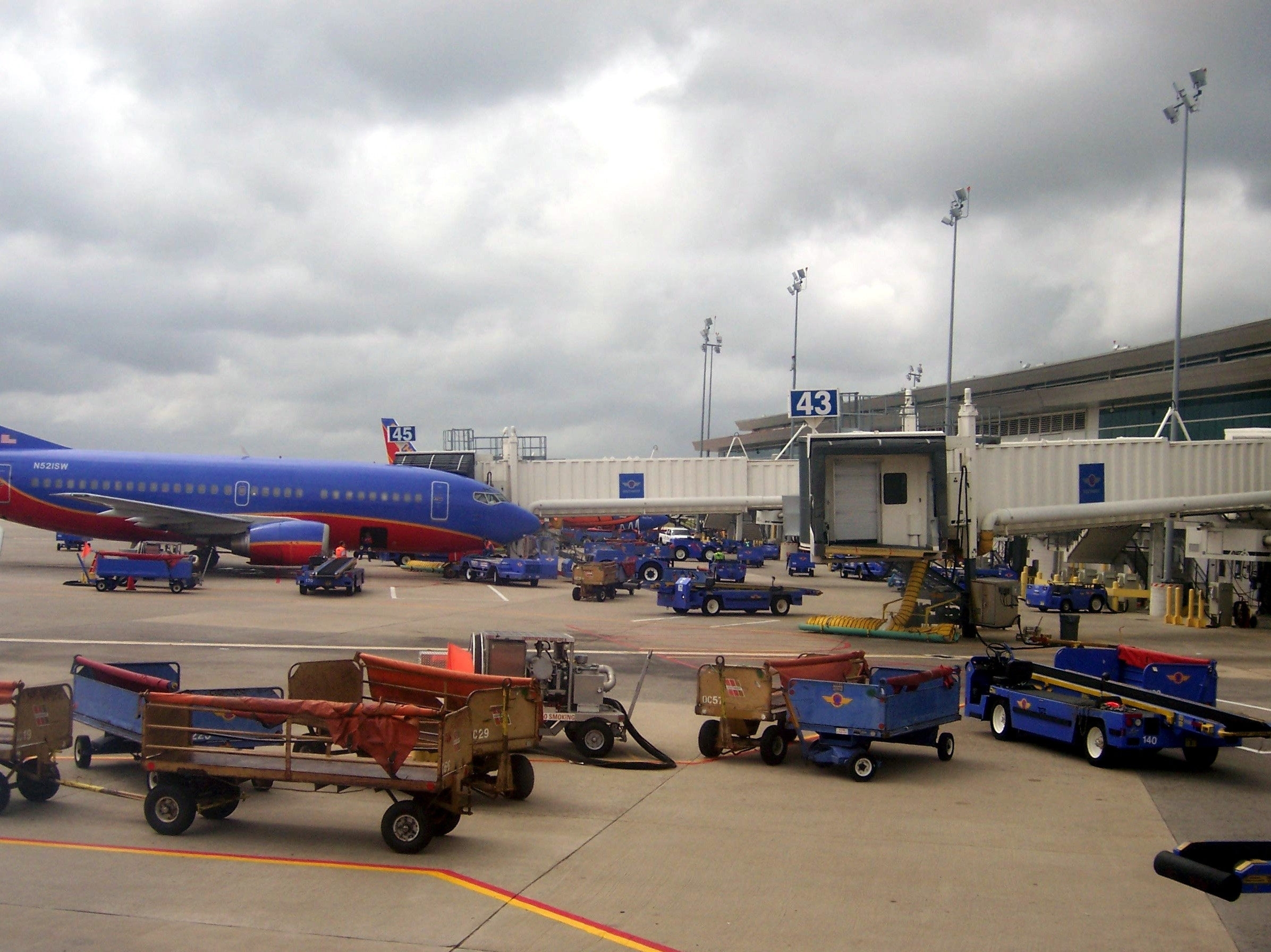 Southwest Airlines ramp operations at William P. Hobby Airport in Houston, Texas, United States. A Boeing 737-500 (N521SW) can be seen in the background parked at gate 45.